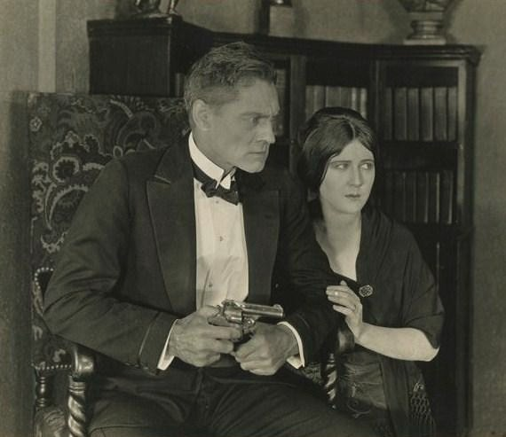 Lionel Barrymore and Seena Owen in The Face in the Fog (1922) - publicity still (cropped : see source).